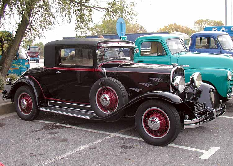 1929 Chrysler Model 77, at a Classics Rally, Bristol, England, in October 2003.